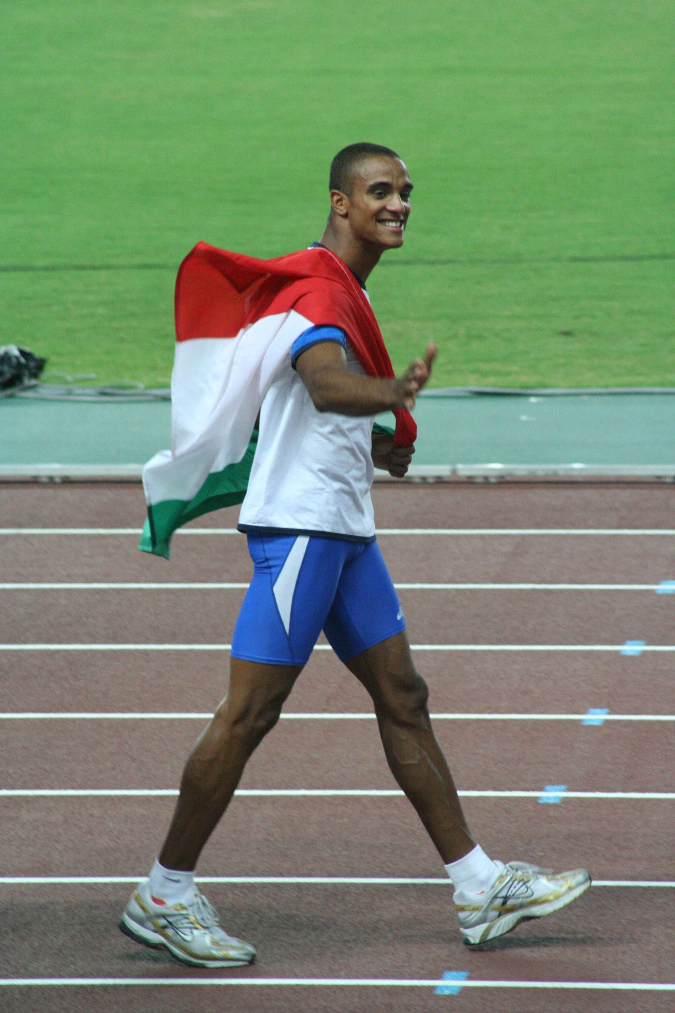 Italian long jumper Andrew Howe celebrating his second place at the 11th IAAF World Championships in Athletics, held in 2007 in Osaka, Japan.